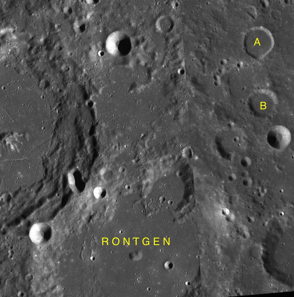 Part of the chart LAC-36 used for the presentation